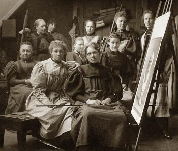 Ville Bang and Augusta Paulli's art school for women in Copenhagen with themselves and some of their students.